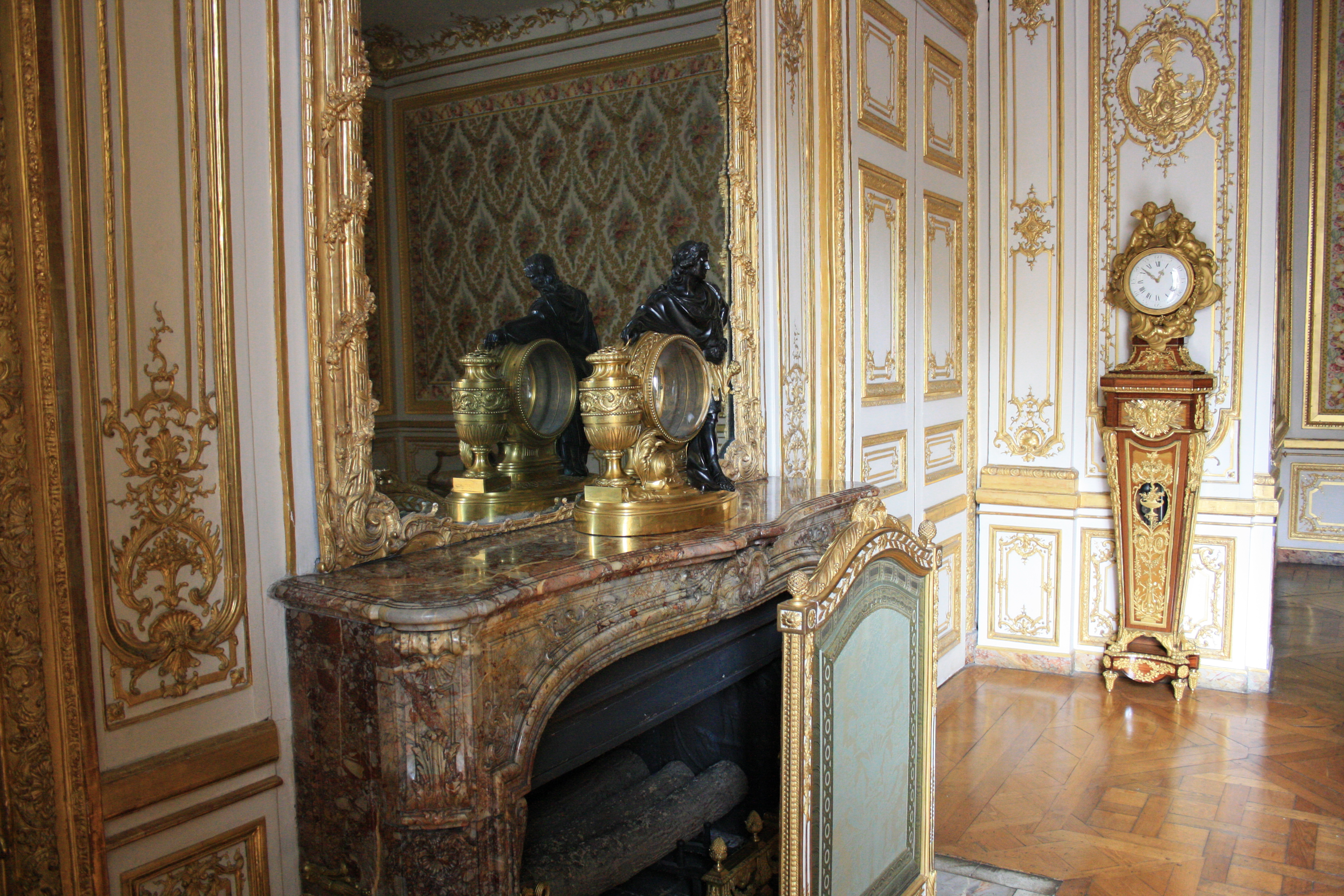 Petit appartement du roi (small apartment of the king) in the Palace of Versailles in Versailles, France